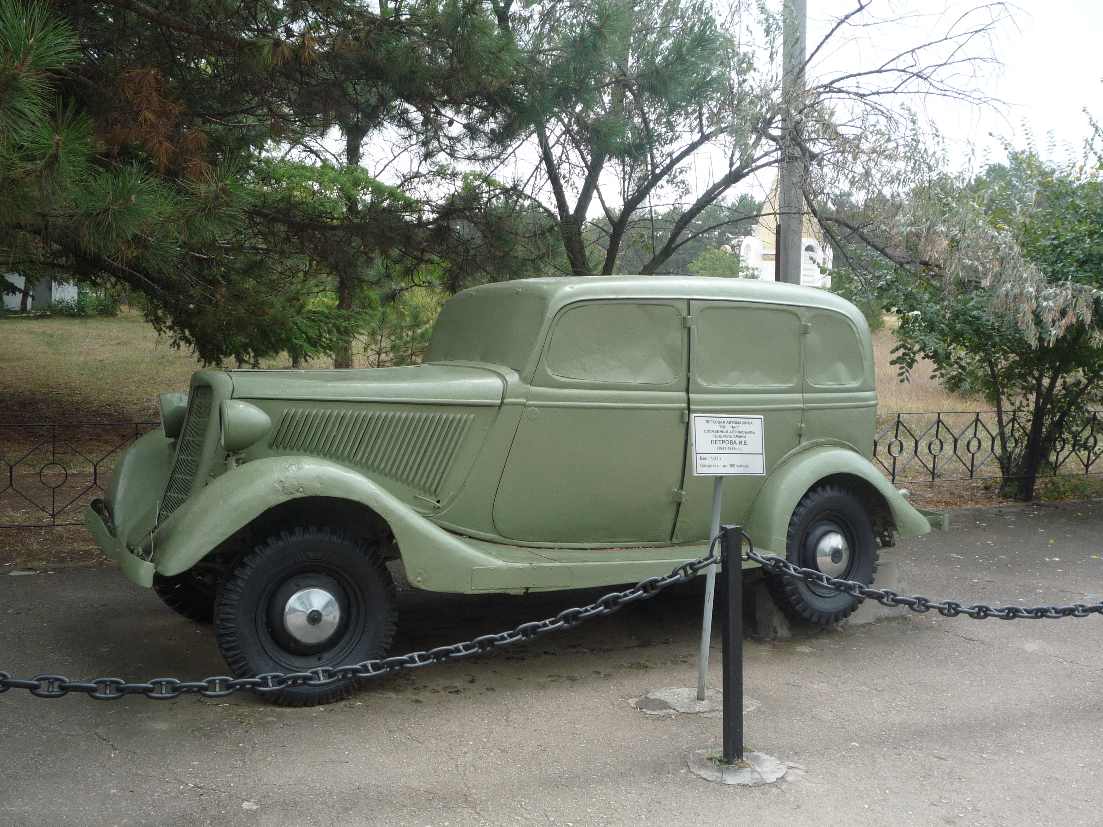 Company car, Army General Petrov I.E, Sapun Mountain